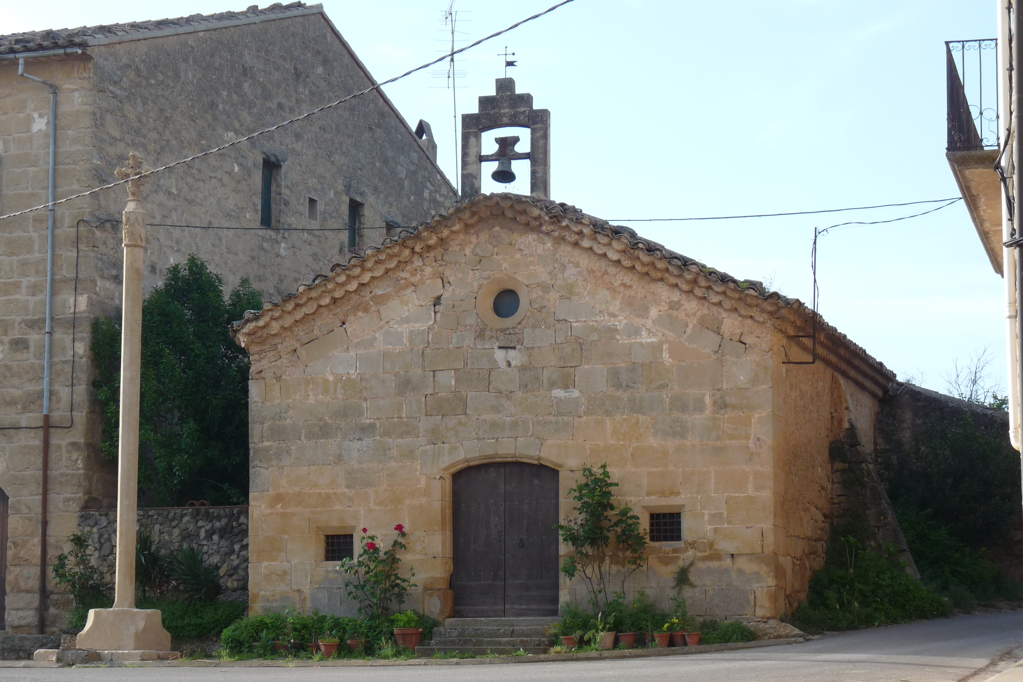 Hermitage of Sant Sebastià,el Vilosell